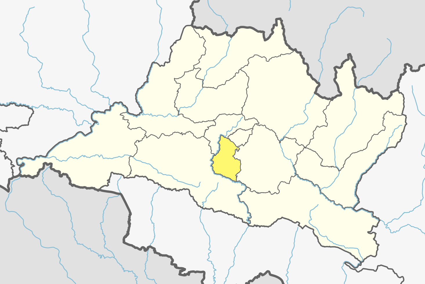 A district of Bagmati Pradesh